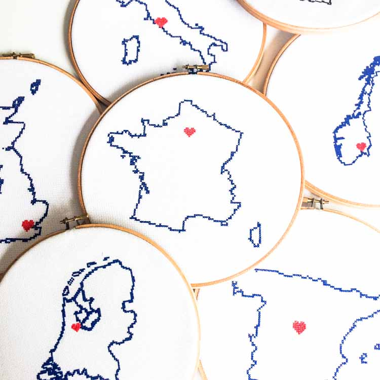 This is an example of modern cross stitch patterns. These cross stich maps are designed by Dutch designer Studio Koekoek. You stitch the map outline and add a heart for the capital or the place you love most.